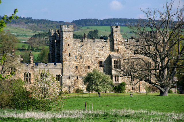 Haughton Castle. Haughton Castle near Humshaugh. See also 1272604.